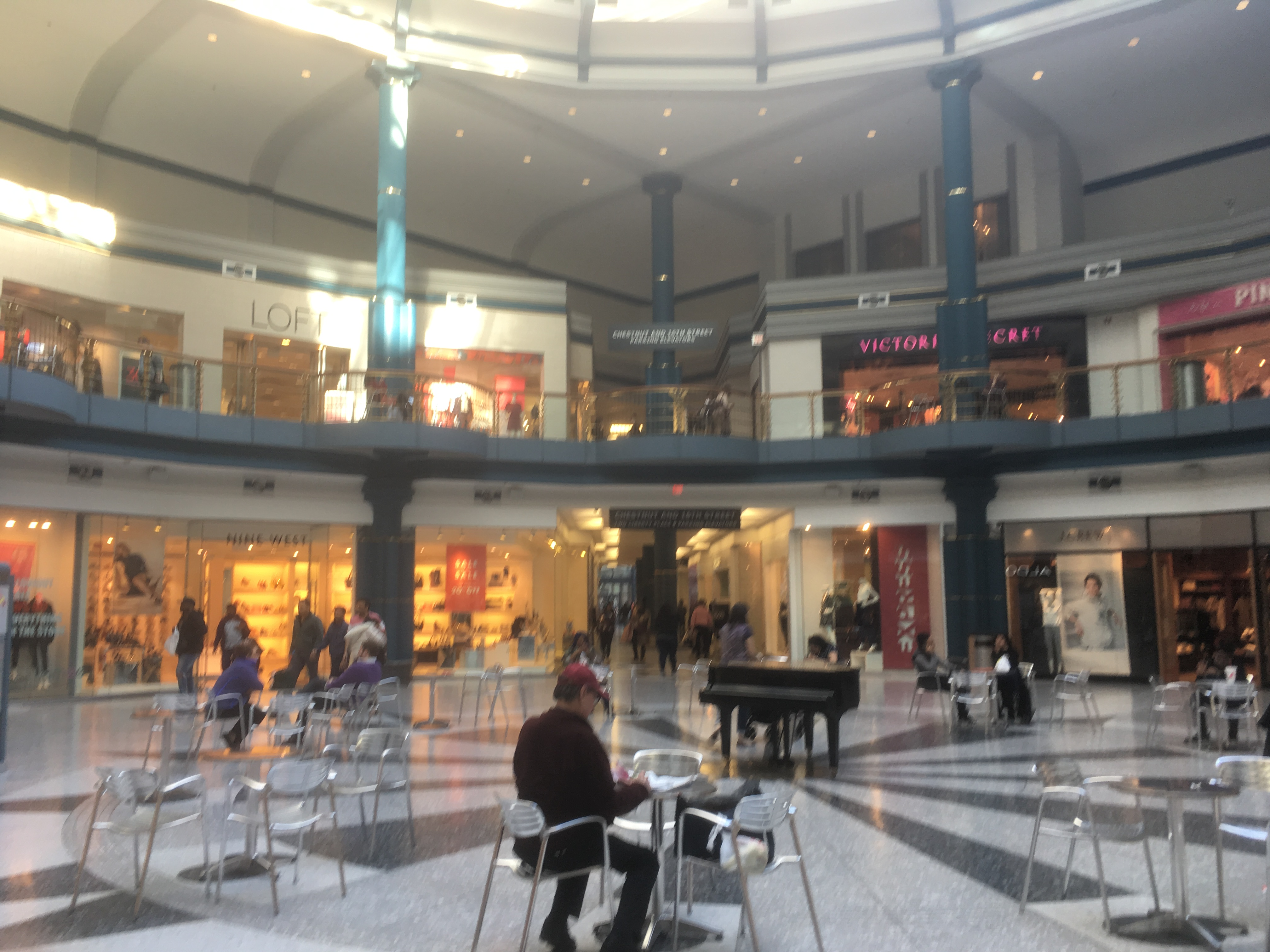 A view of The Shops at Liberty Place from the first floor.